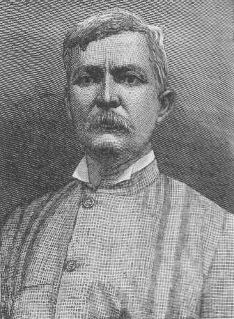 Henry Morton Stanley.